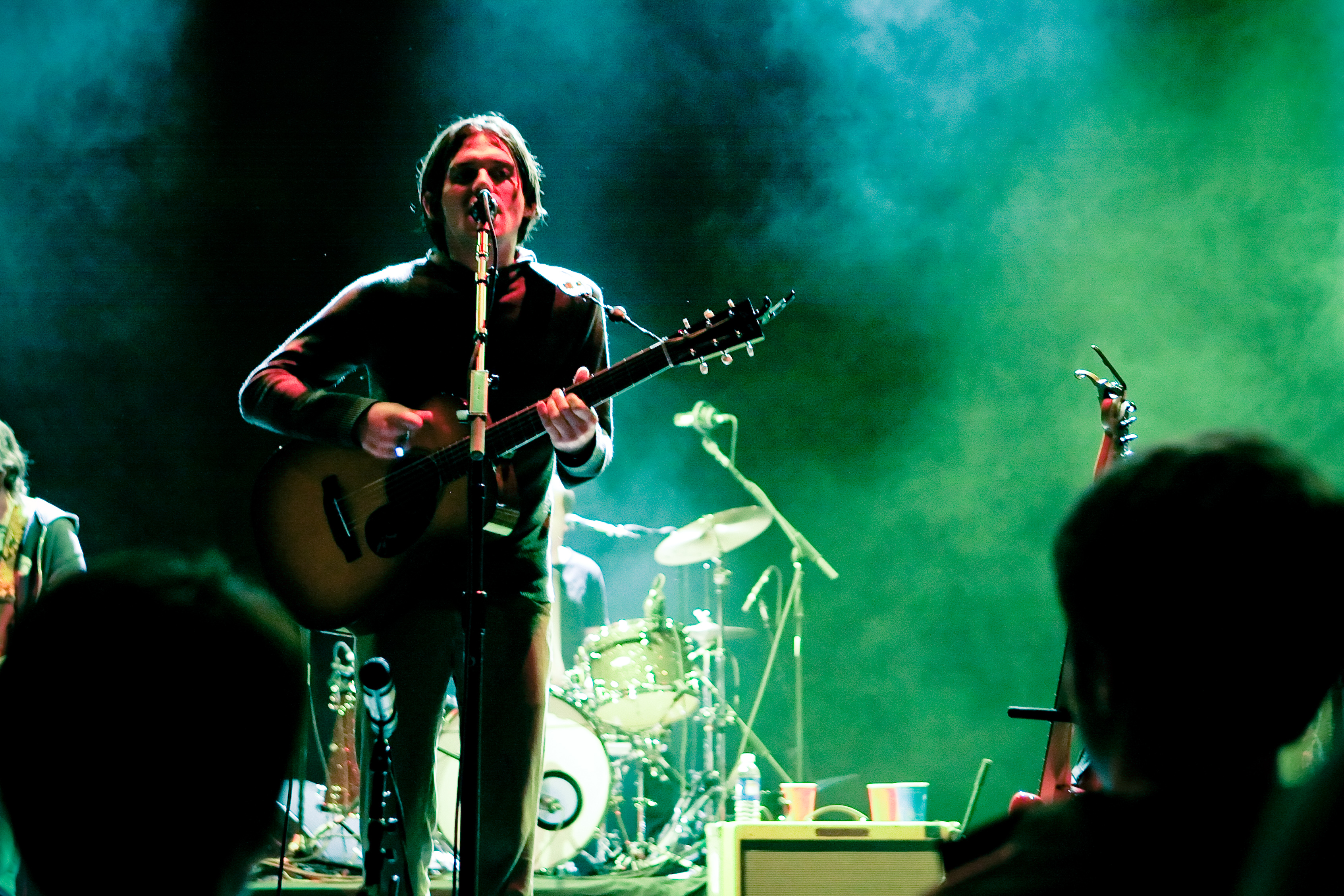 Conor Oberst of Bright Eyes performs at the Lied Center in Lawrence, KS on October 23, 2007